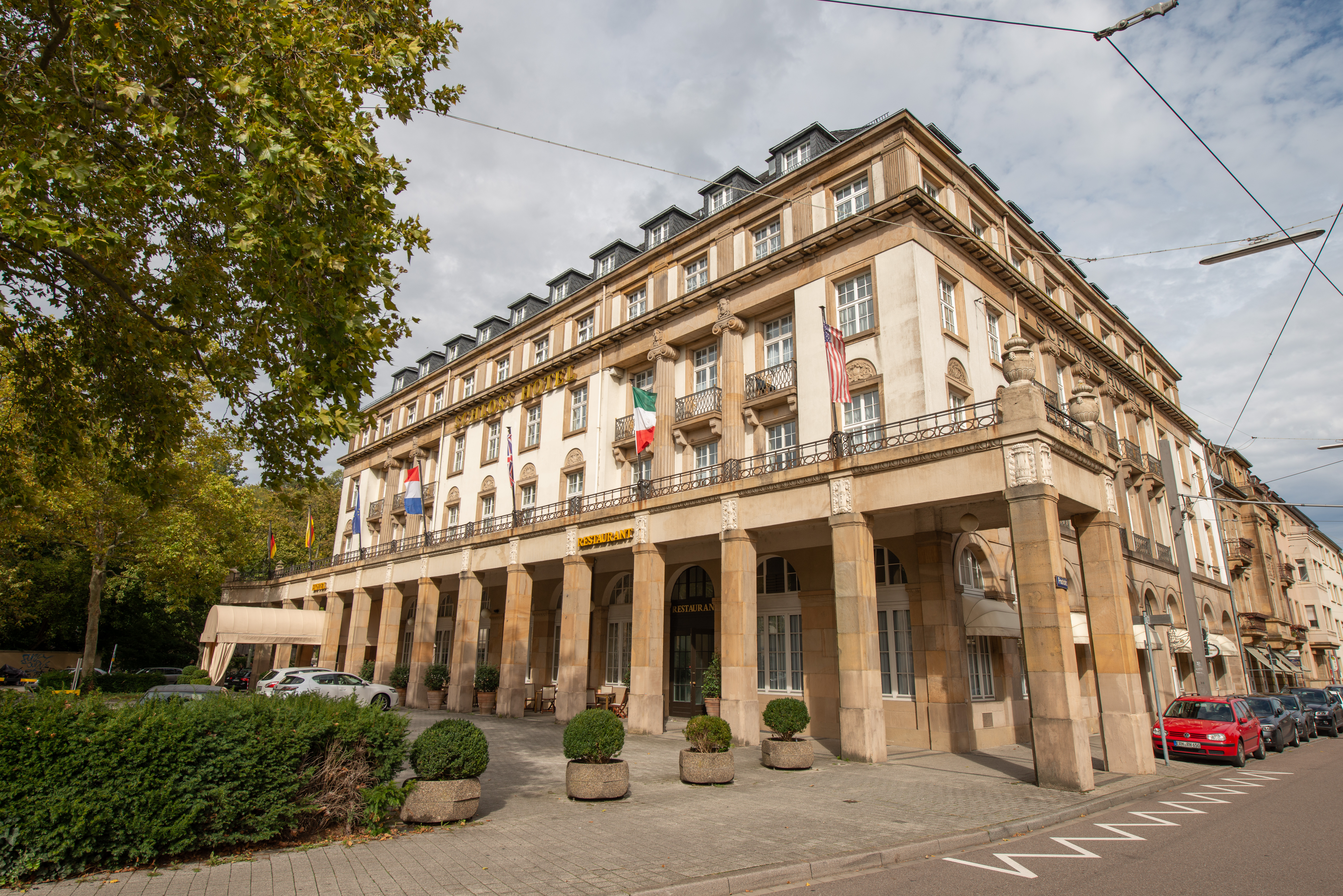 Karlsruhe, Schlosshotel Karlsruhe. Wikidata has entry Q18630572 with data related to this item.